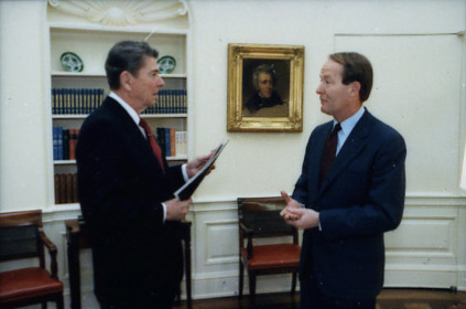 President Ronald Reagan and Lamar Alexander (4-12) Meeting with Lamar Alexander, Governor of Tennessee and Chairman of the National Governors' Association